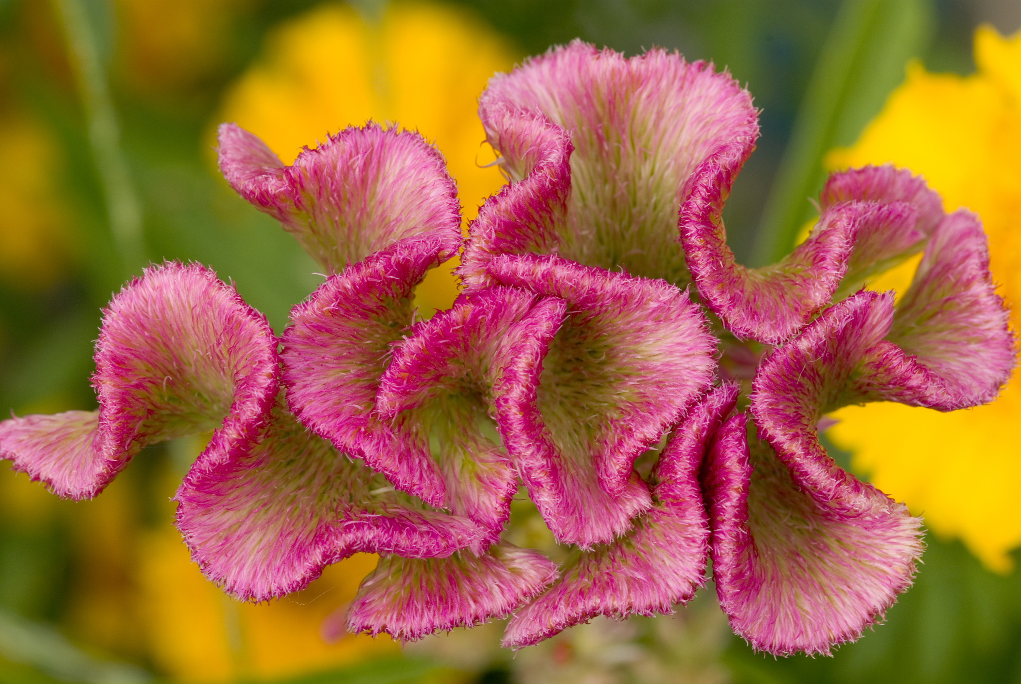 plumed cockscomb